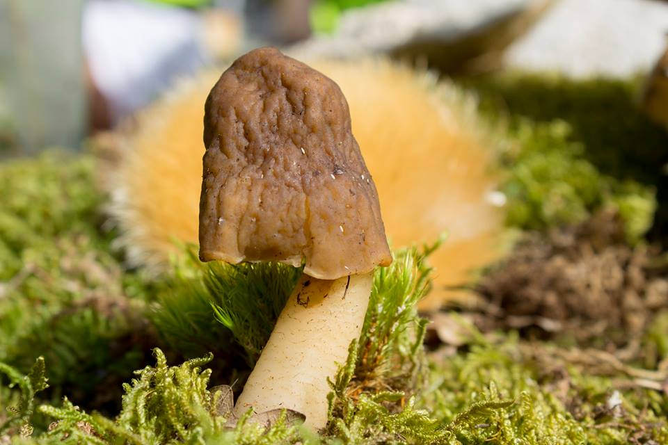 photo of Verpa conica, a false morel